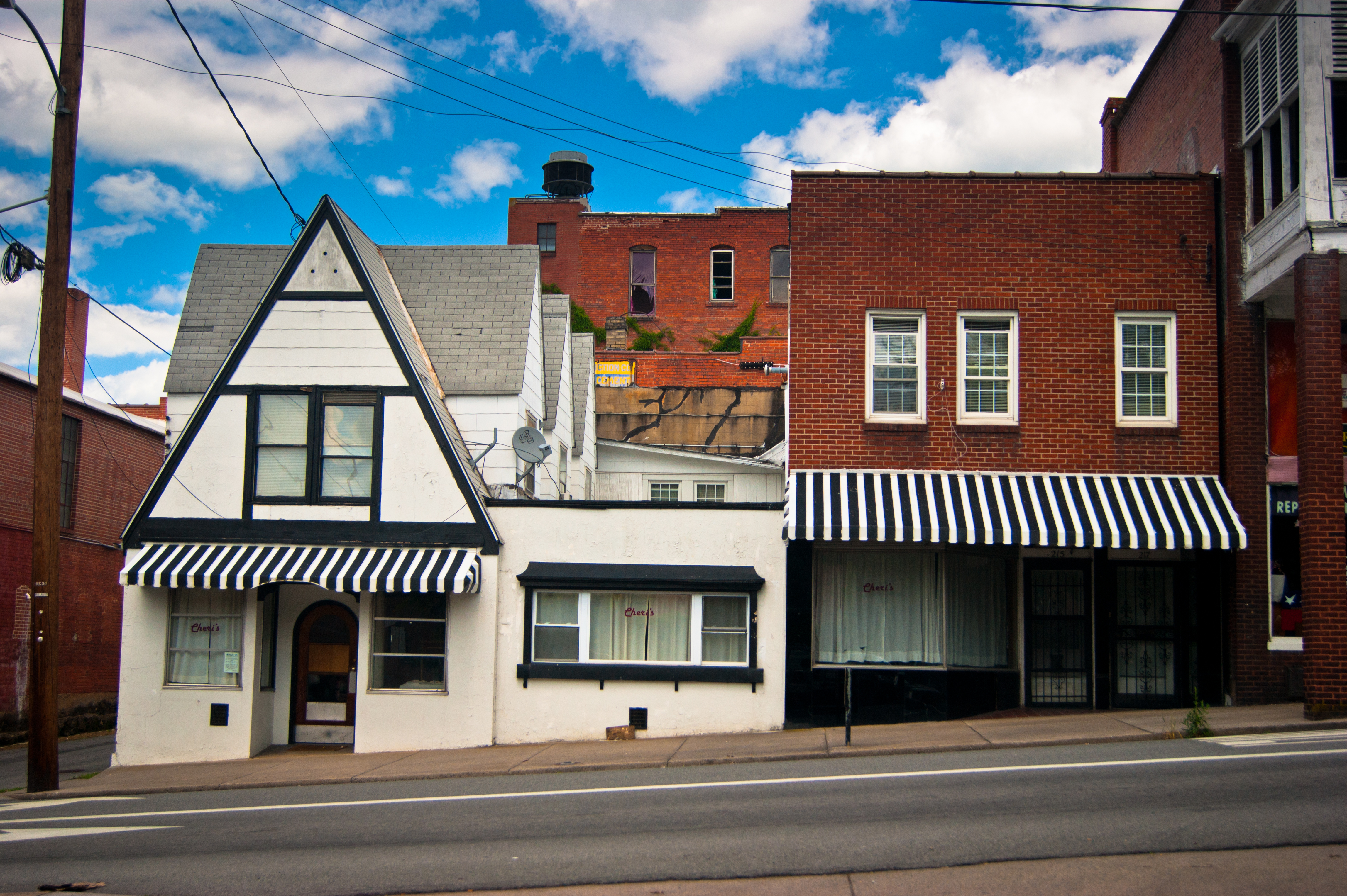 Hinton Historic District 213-215 Second Street, was Cheri's Vegan Restaurant, now closed. 213 (left) a contributing building in the Arts and Crafts syle.